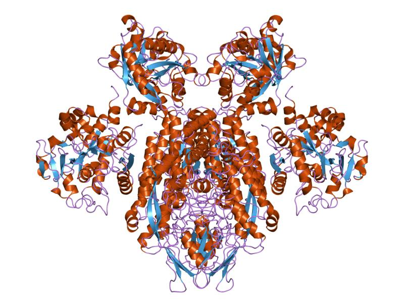 Cartoon representation of the molecular structure of protein registered with 1suv code.